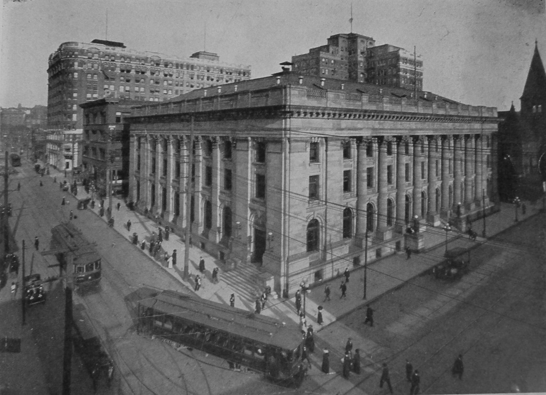 Old downtown post office, Seattle, Washington at the corner of Third Avenue (to the right) and Union Street (to the left). To the left of the post office can be seen the Seattle Post-Intelligencer's building of the time, and the White Building (now demolished).